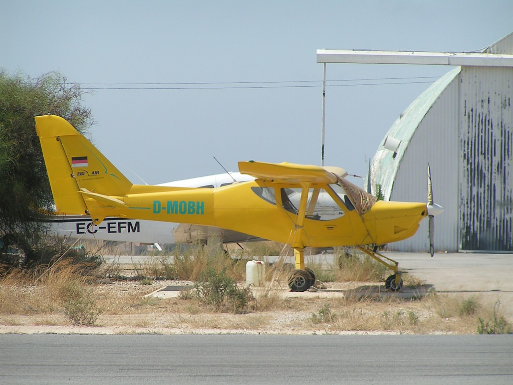 PC-Aero Pretty Flight at Mutxamel,Spain